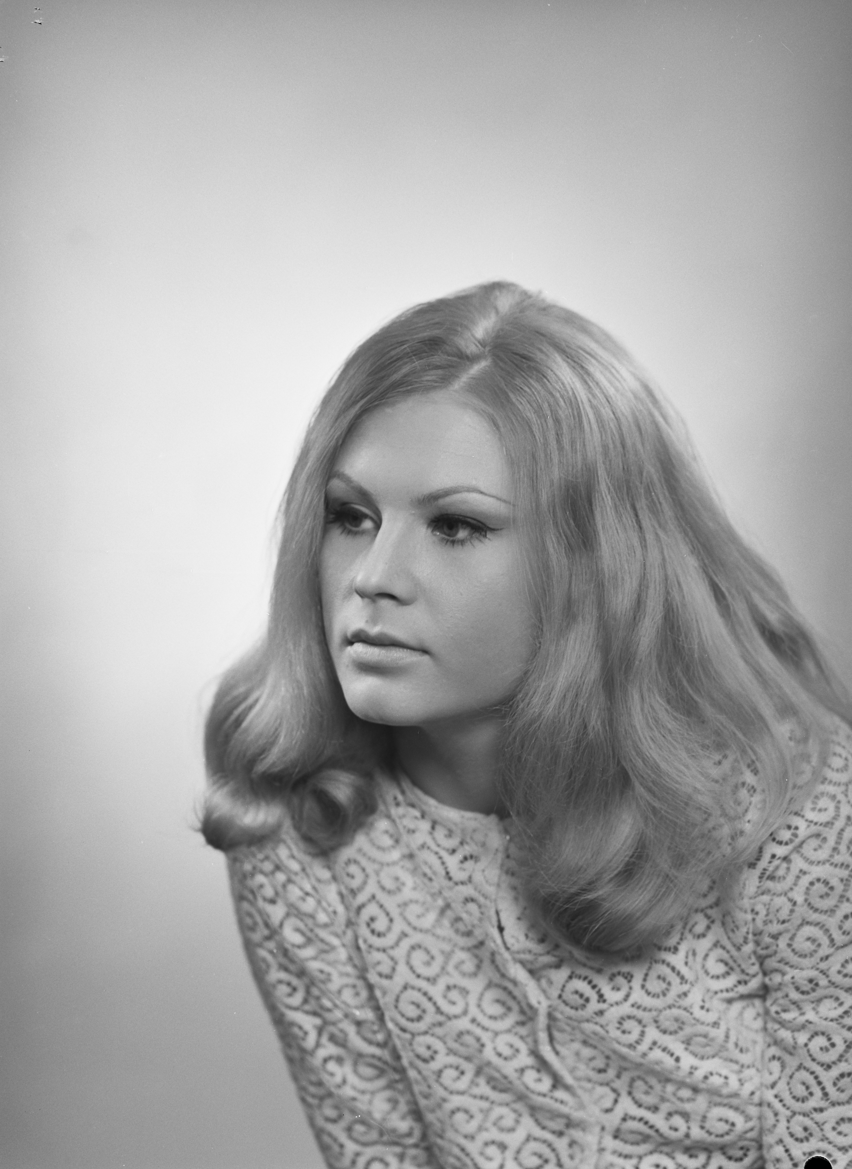 Photograph of the Finnish actress Titta Karakorpi (1944–).